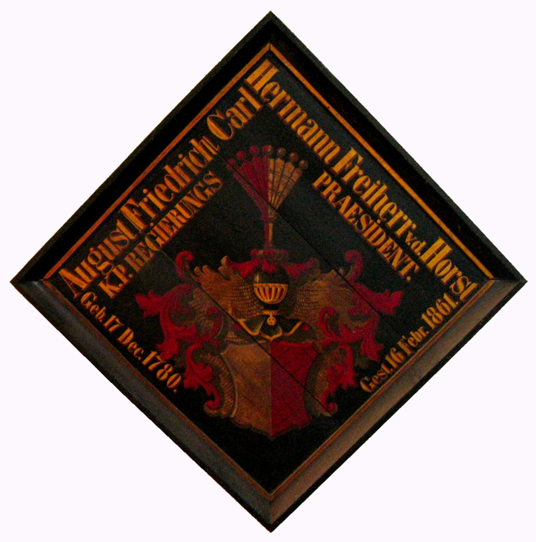 Hollwinkel Castle in Preußisch Oldendorf, District of Minden-Lübbecke, North Rhine-Westphalia, Germany.